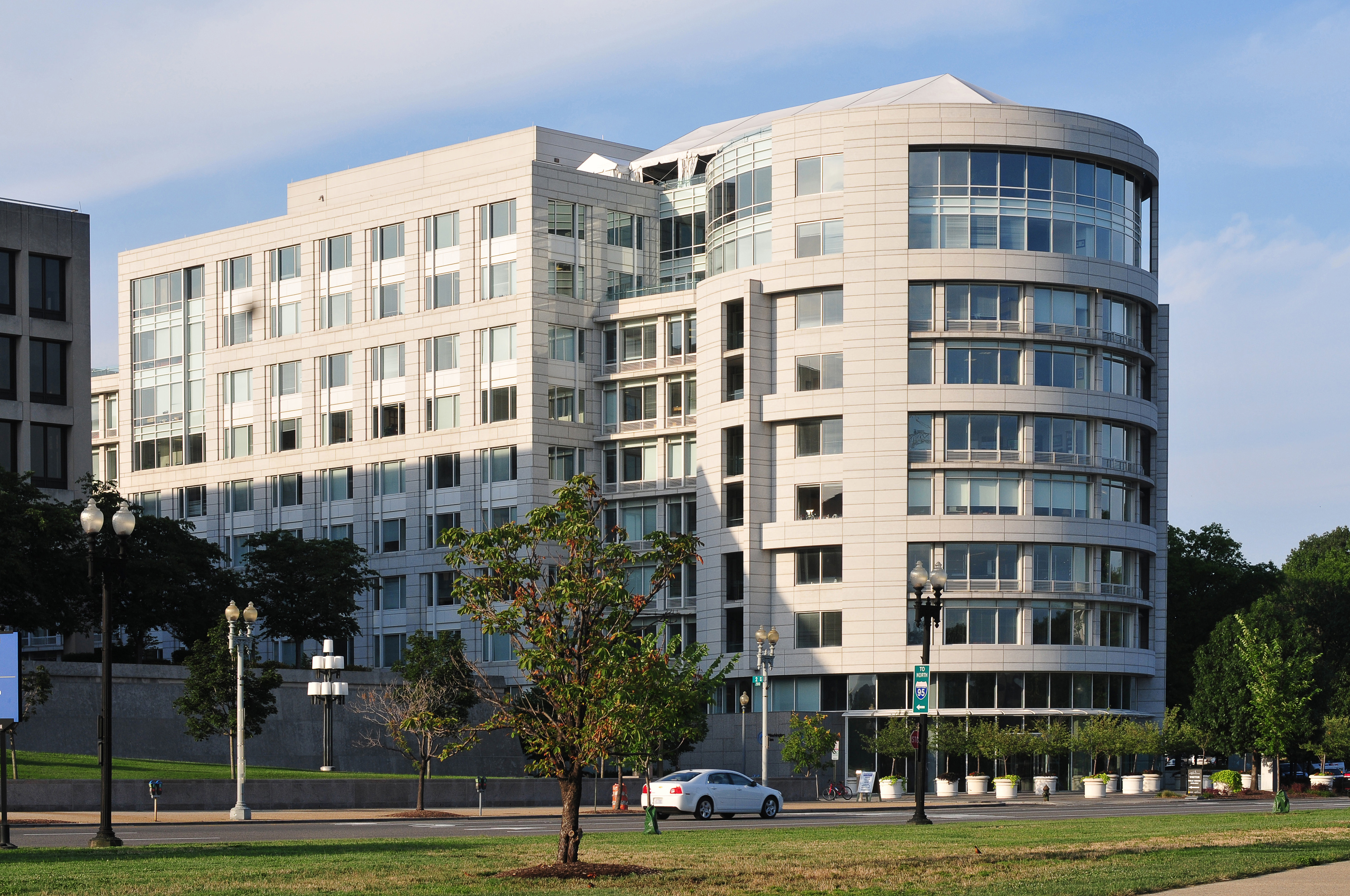 Washington D.C., 2nd. Street / Constitution Ave. The making of this work was supported by Wikimedia Austria. For other files made with the support of Wikimedia Austria, please see the category Supported by Wikimedia Österreich.